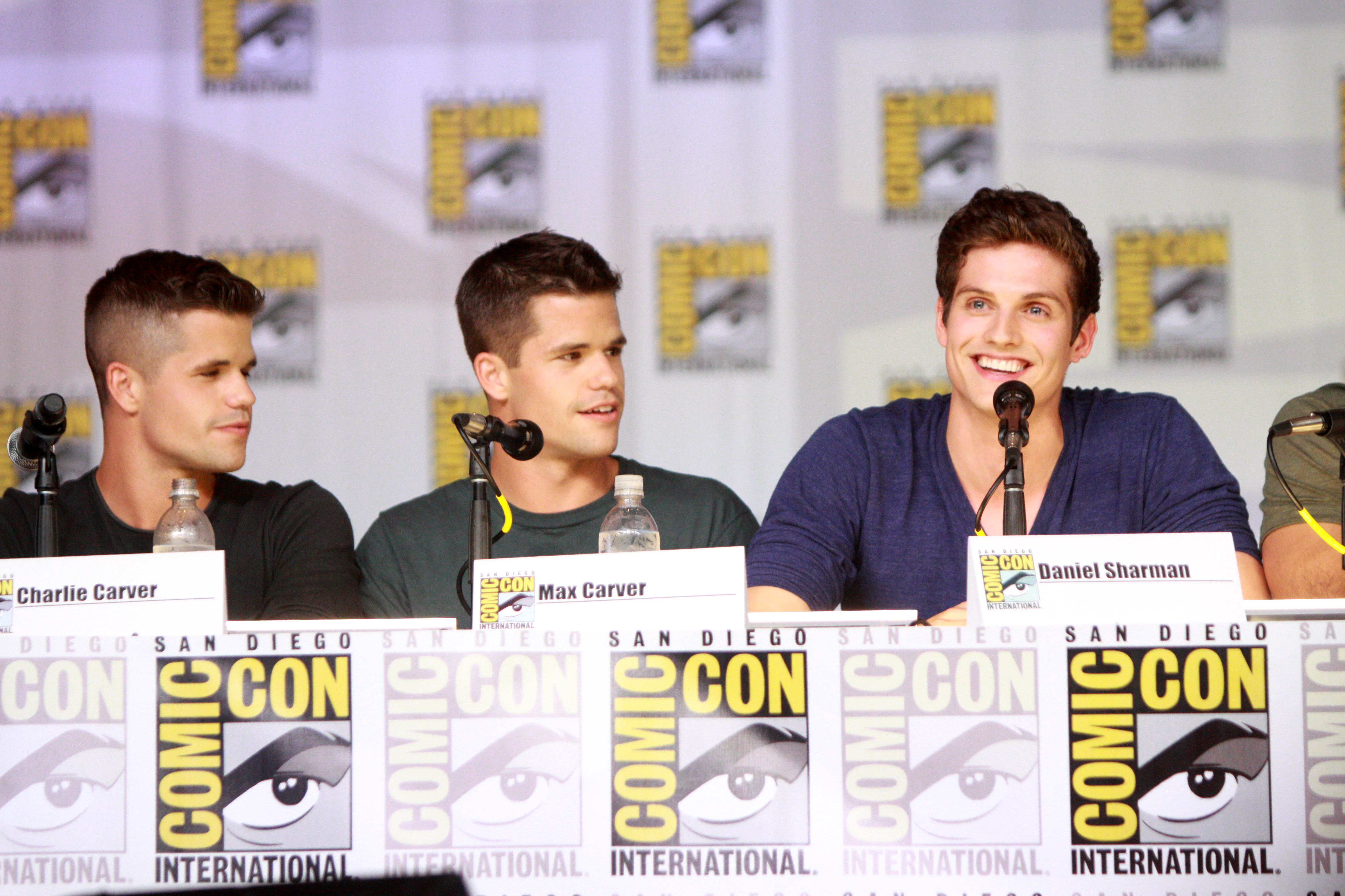 Charlie Carver, Max Carver and Daniel Sharman speaking at the 2013 San Diego Comic Con International, for "Teen Wolf", at the San Diego Convention Center in San Diego, California.